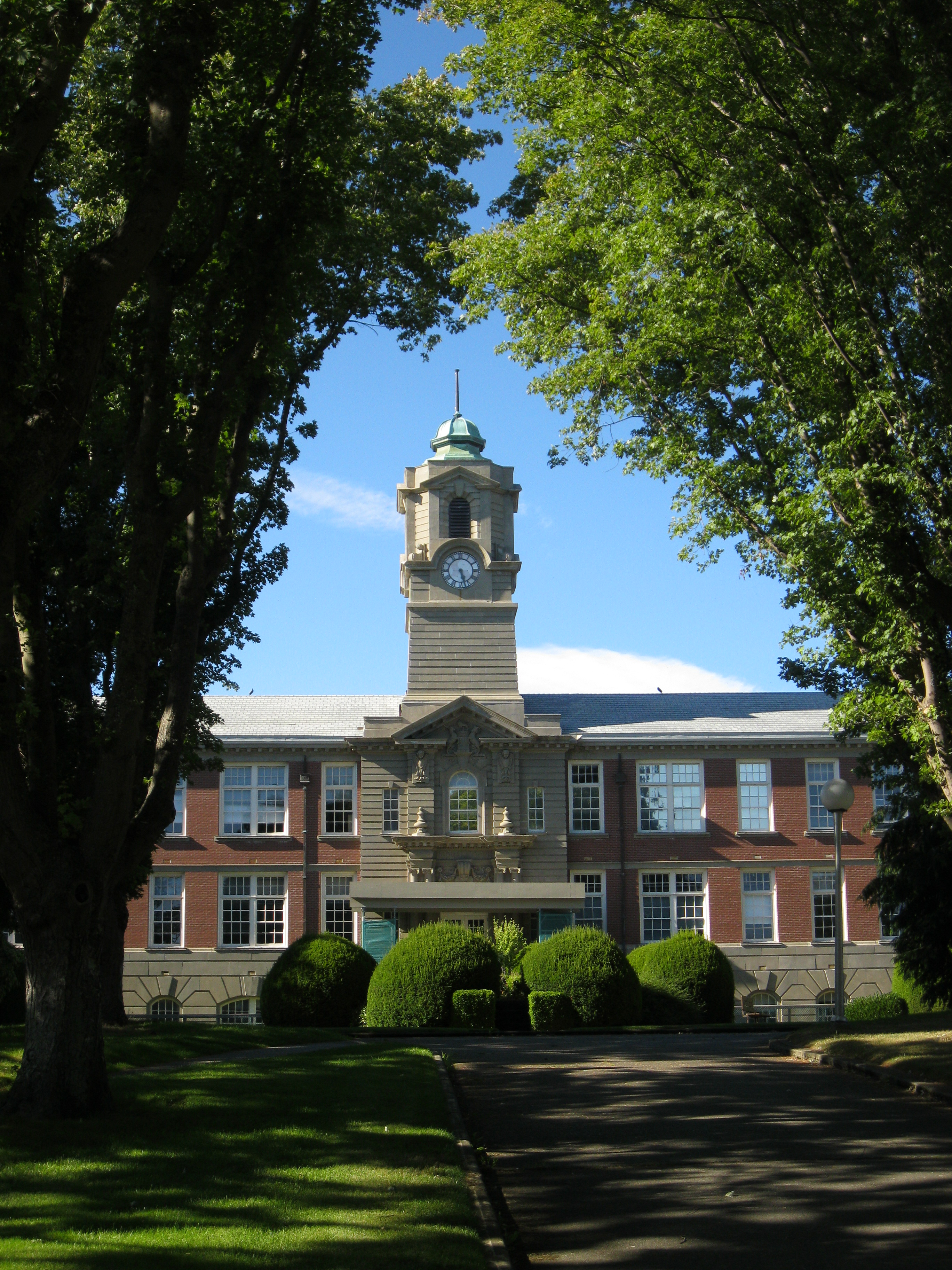 Historic Young building. READ INFO IN PANORAMIO/COMMENTS